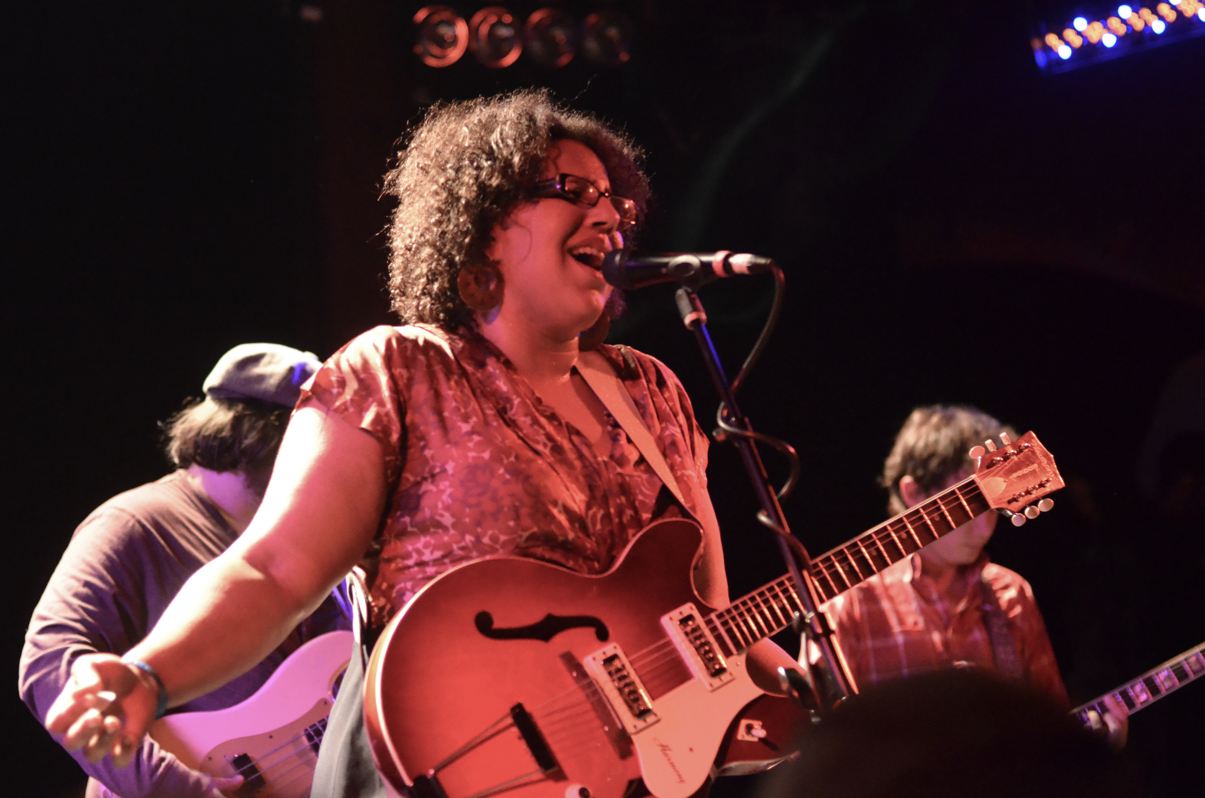 Brittany Howard of Alabama Shakes